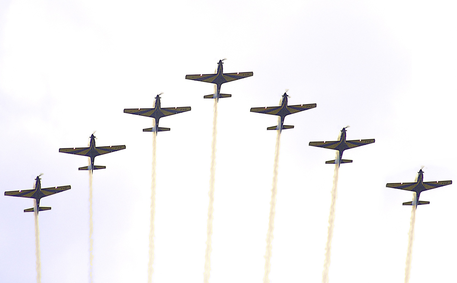 Esquadrilha da Fumaça (Brazilian Air Force Smoke squadron) show at Avaré Airport (Brazil)